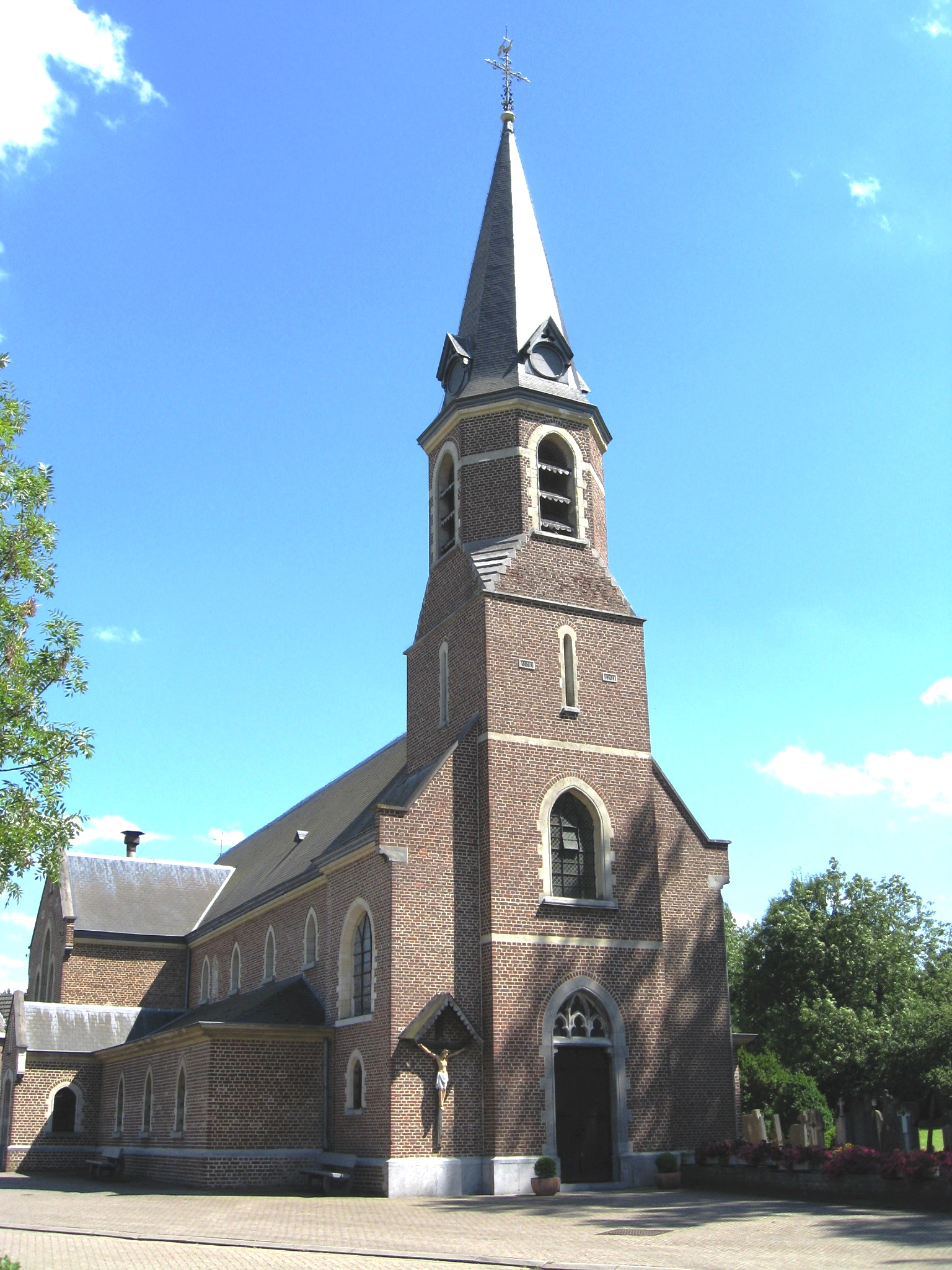 Church of Saint Nicolas in Wimmertingen, Limburg, Belgium